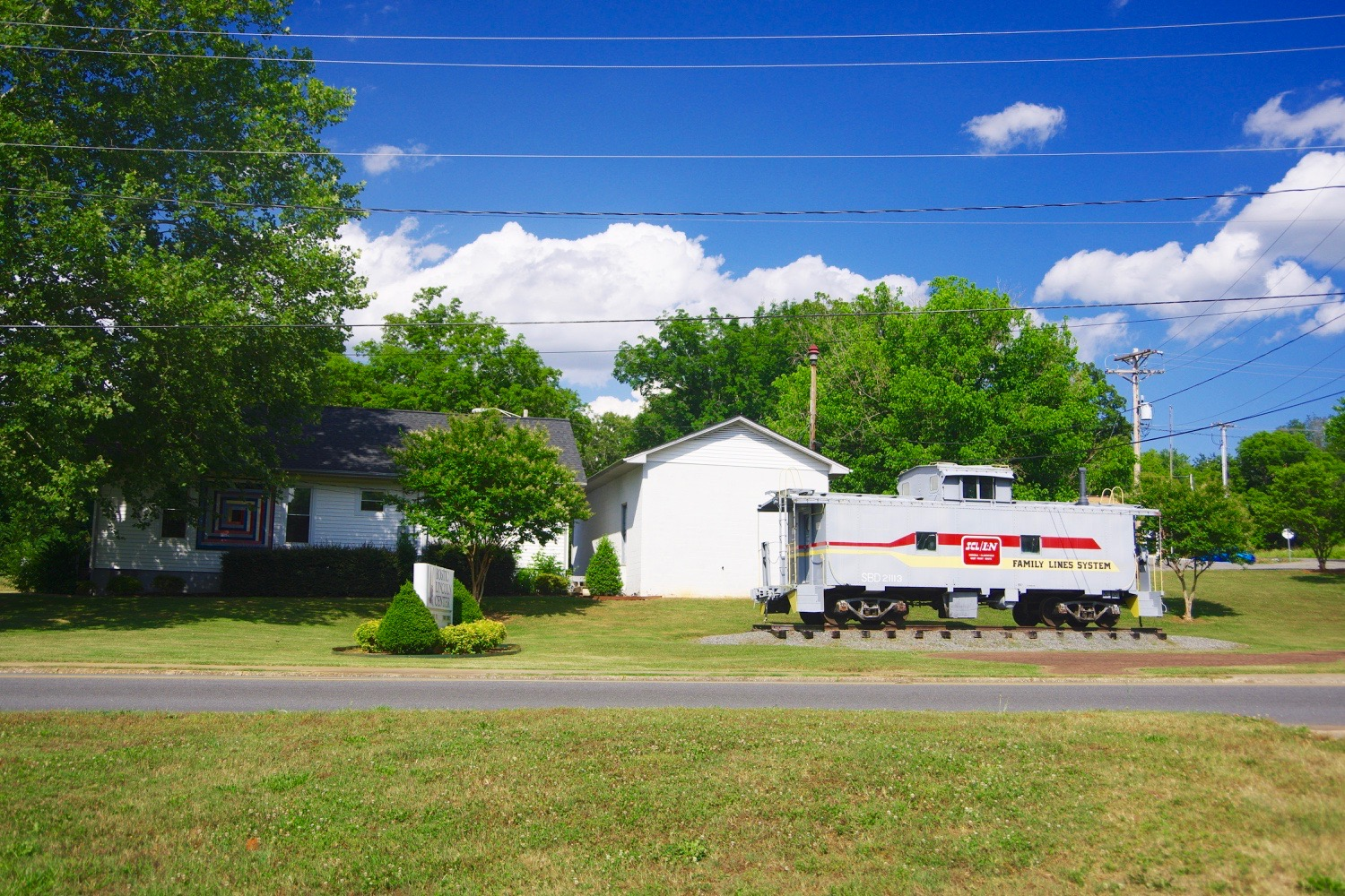 Bostic Lincoln Center and caboose in Bostic, North Carolina, United States.